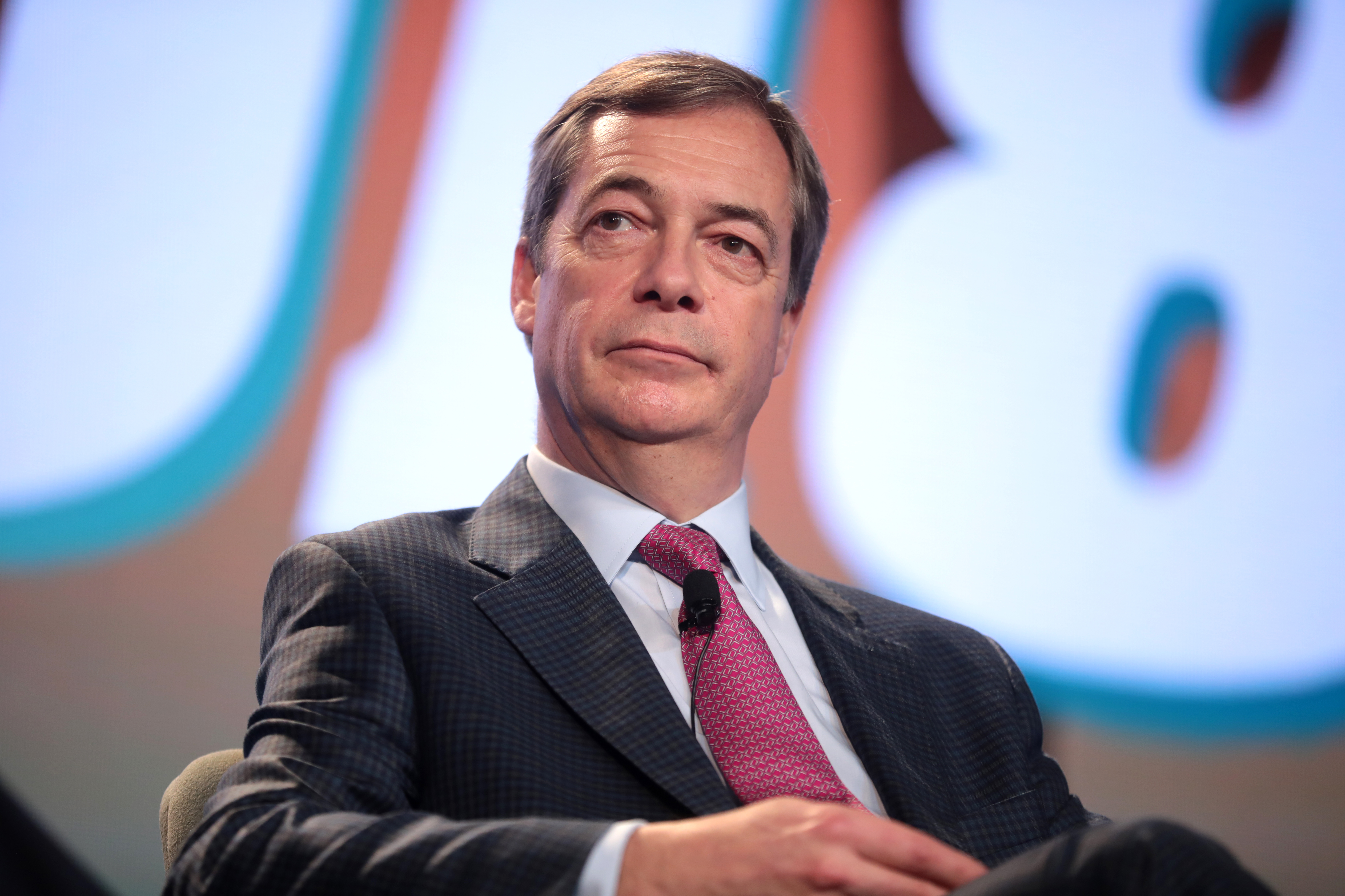 Nigel Farage speaking with attendees at the 2018 Student Action Summit hosted by Turning Point USA at the Palm Beach County Convention Center in West Palm Beach, Florida.